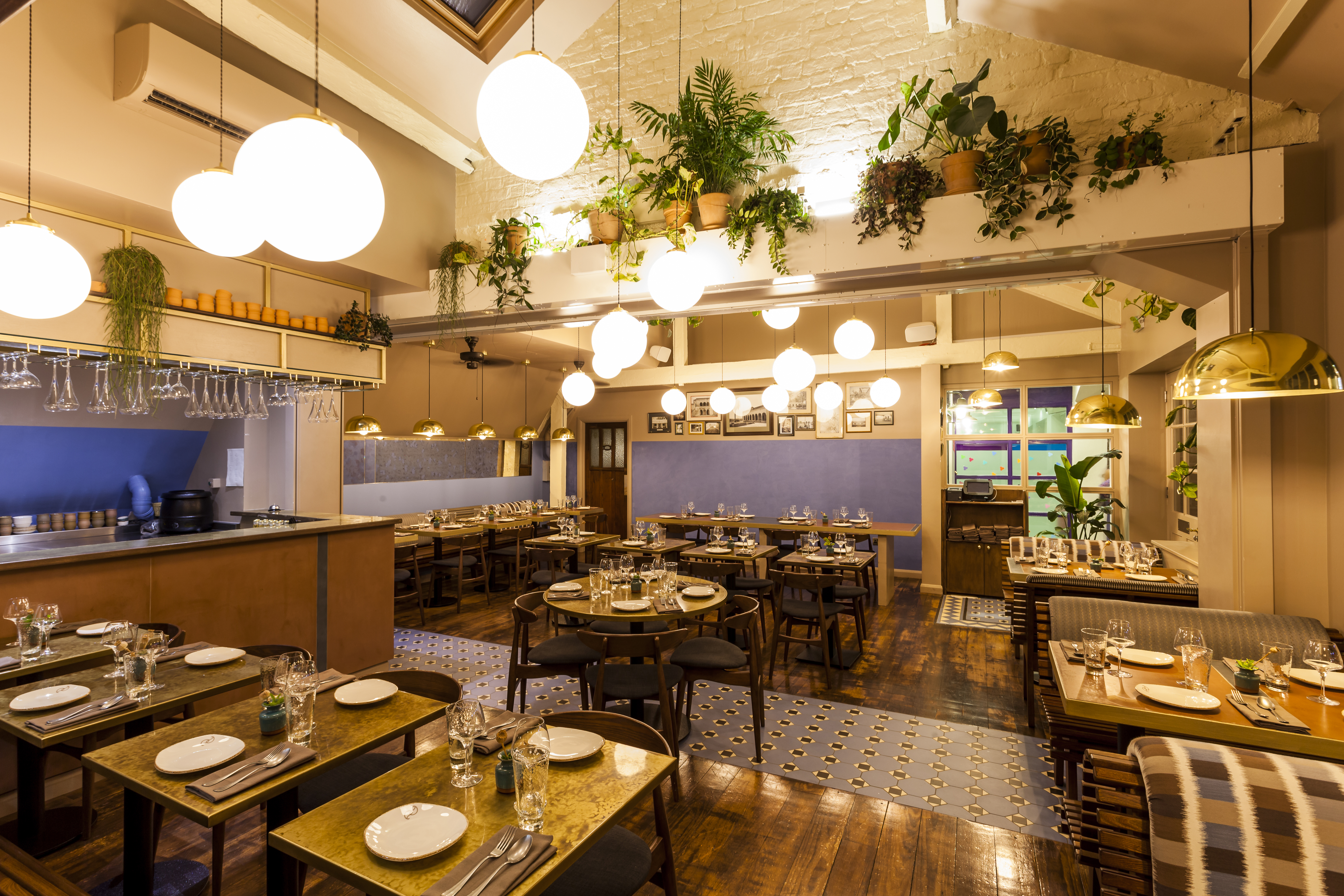 Asma Khan; chef-founder, Darjeeling Express, Soho, Kingly Court, Carnaby Street, London W1B 5PW, England, UK